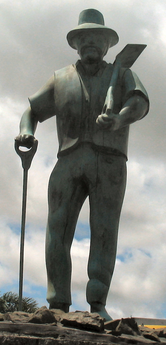 Gumdigger statue at Dargaville, Northland, New Zealand. Statue erected by the Dalmatian Pioneer Trust, 1997, as a tribute to the early gumdiggers of the Kaipara District.